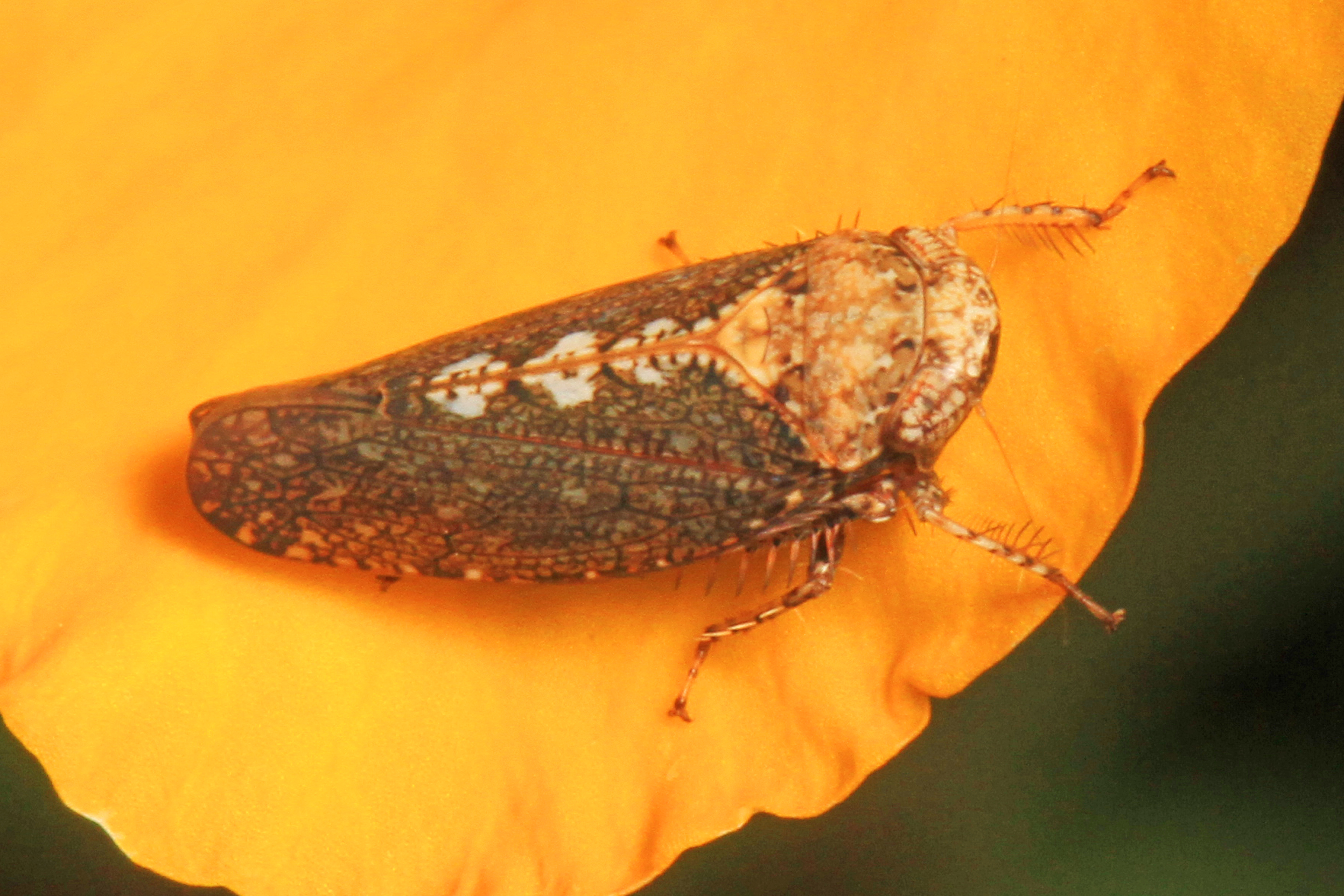 Leafhopper - Texananus excultus, Everglades National Park, Homestead, Florida. There are endless varieties of leafhopper patterns and colors. This is a very small one.